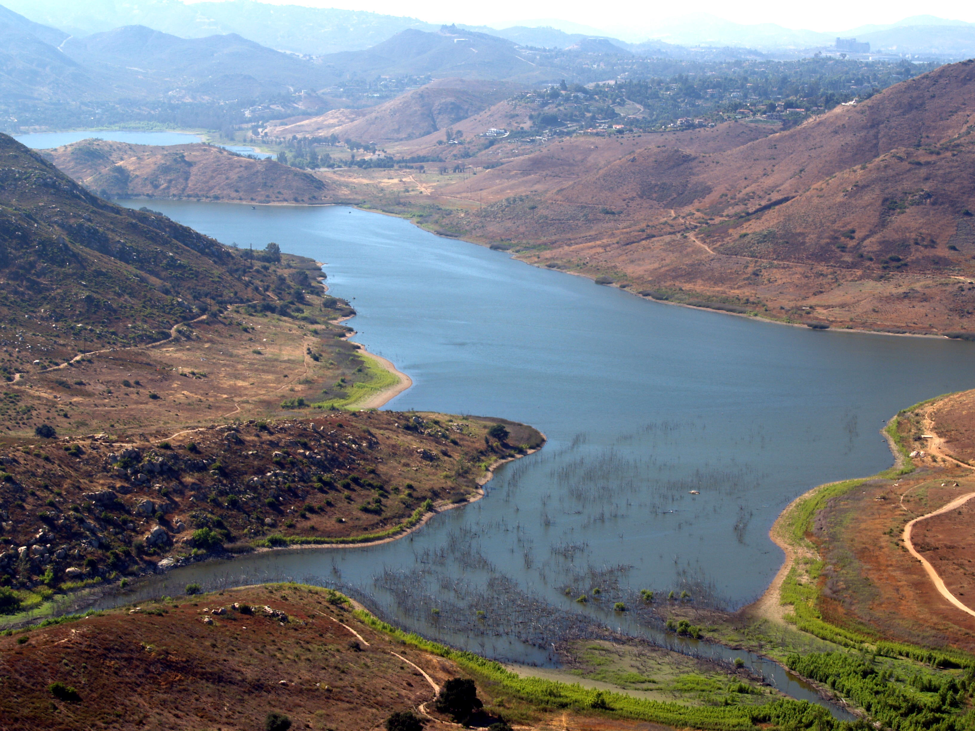 Aerial photo of Lake Hodges looking toward the west in San Diego County, California by Phil Konstantin.